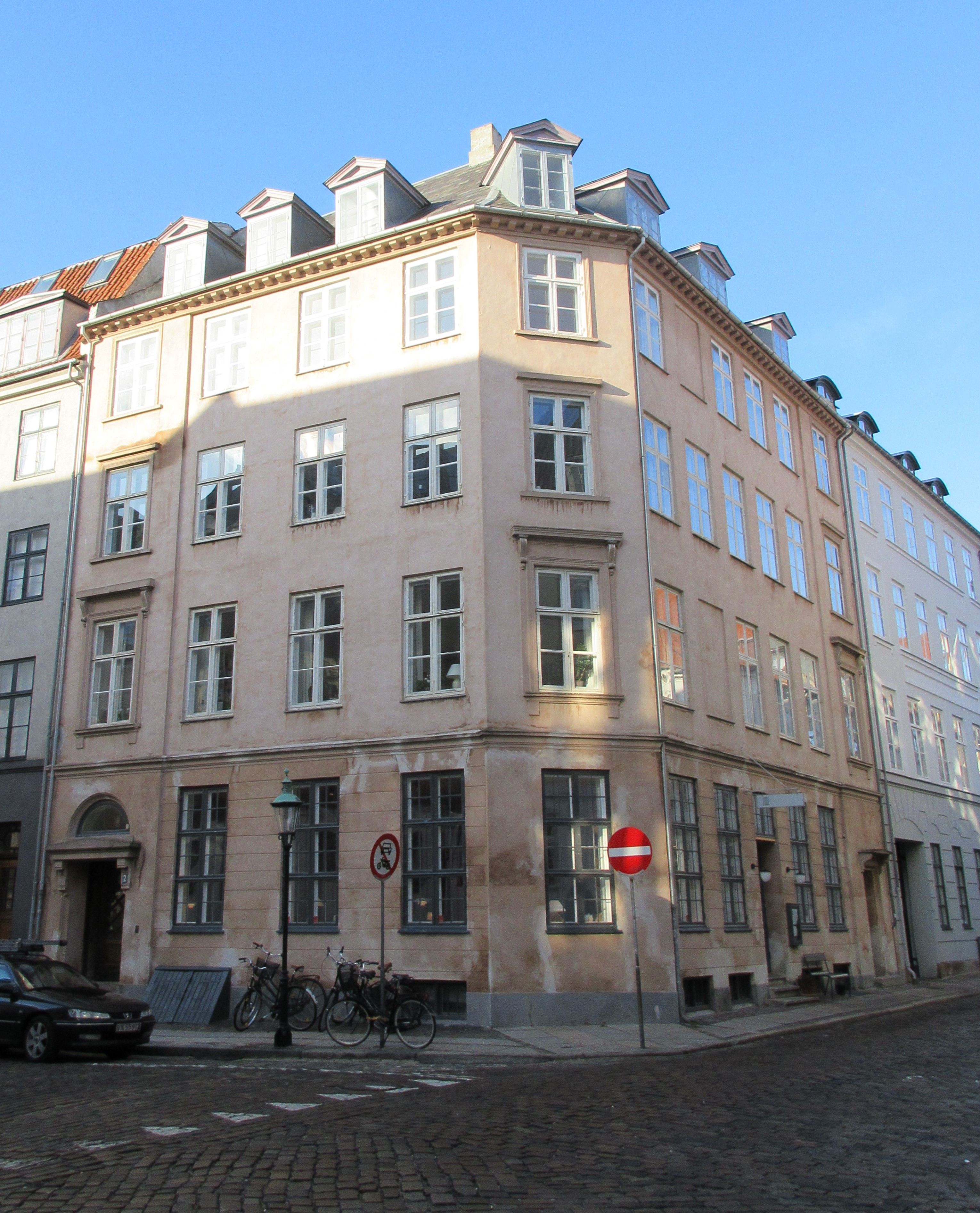 Boldhusgade 2 (corner with Admiralgade) in Copenhagen, Denmark